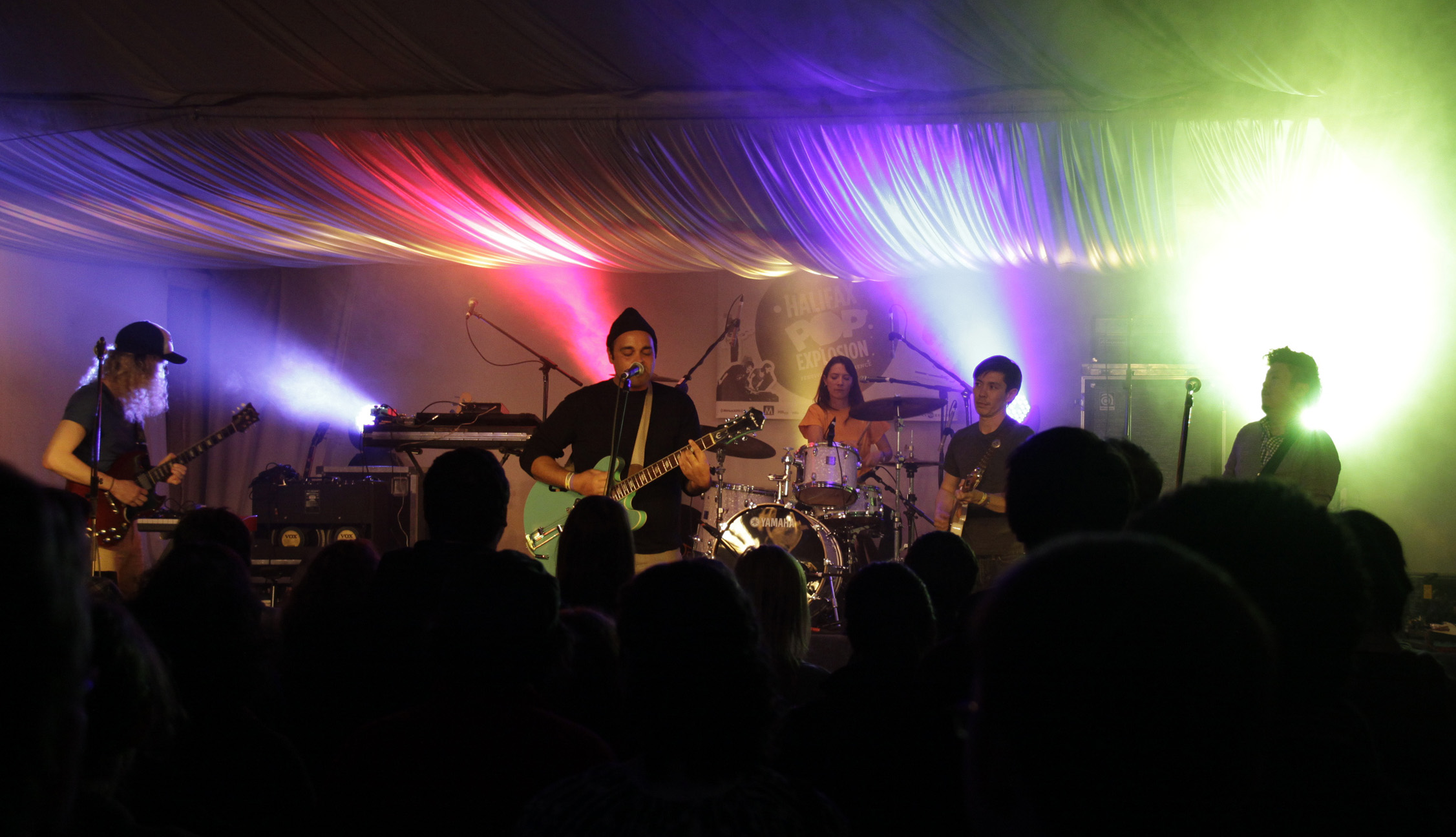 Photo of Toronto indie pop band The Bicycles performing in Halifax at Halifax Pop Explosion, October 19, 2012.